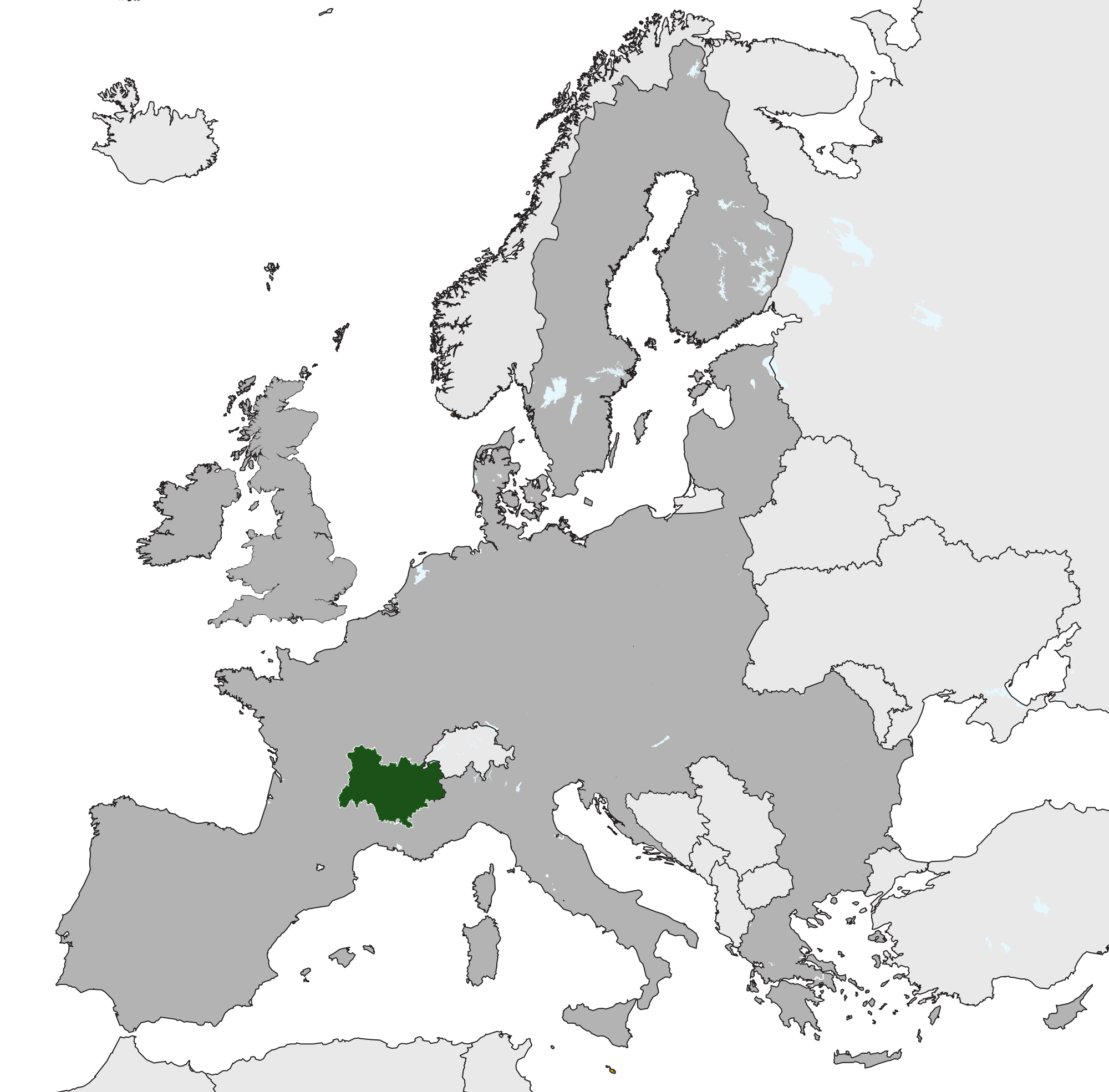 The Auvergne-Rhône-Alpes region in EU